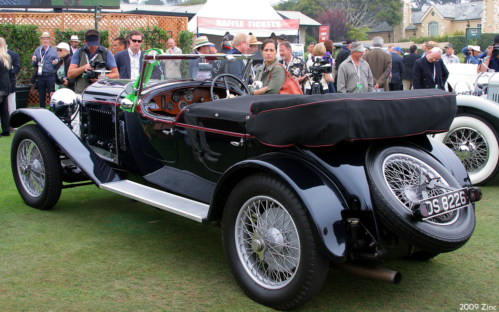 Bentley 4½ Litre Thrupp & Maberly open 4-seater tourer 1929 original coachwork Pebble Beach Concours dElegance, Aug 16, 2009 Chassis MR3390 Engine MR3393 Reg MS 34 delivered May 1929 Pebble Beach Concours dElegance, Aug 16, 2009